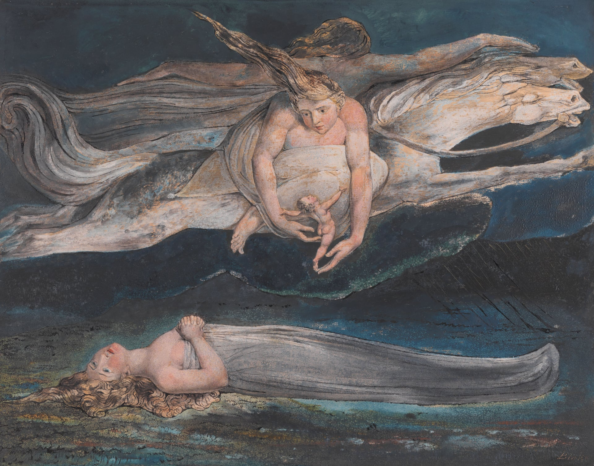 "Pity" by William Blake Colour print finished in ink and watercolour on paper Dimensions (support): 425 x 539 mm